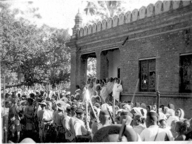 Non - Violent | Women's War in Manipur circa 1904/1939 against the British Colonial Rule